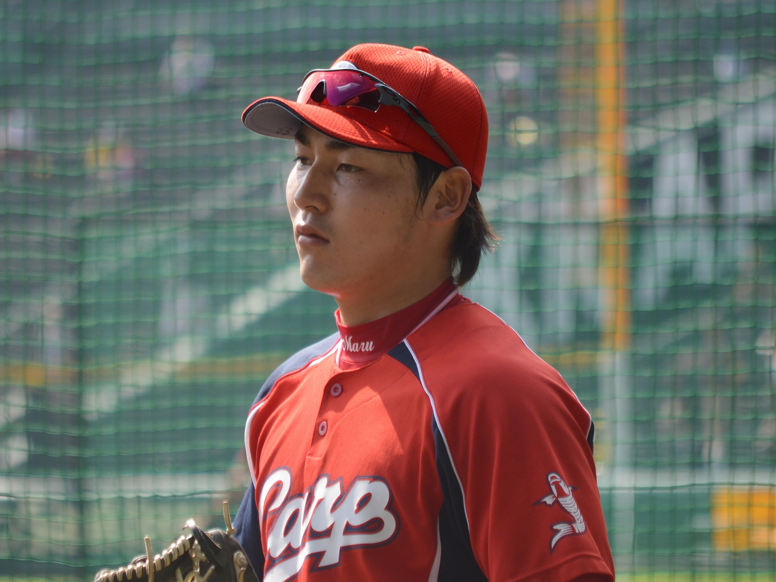 HC-Yoshihiro-Maru20131012